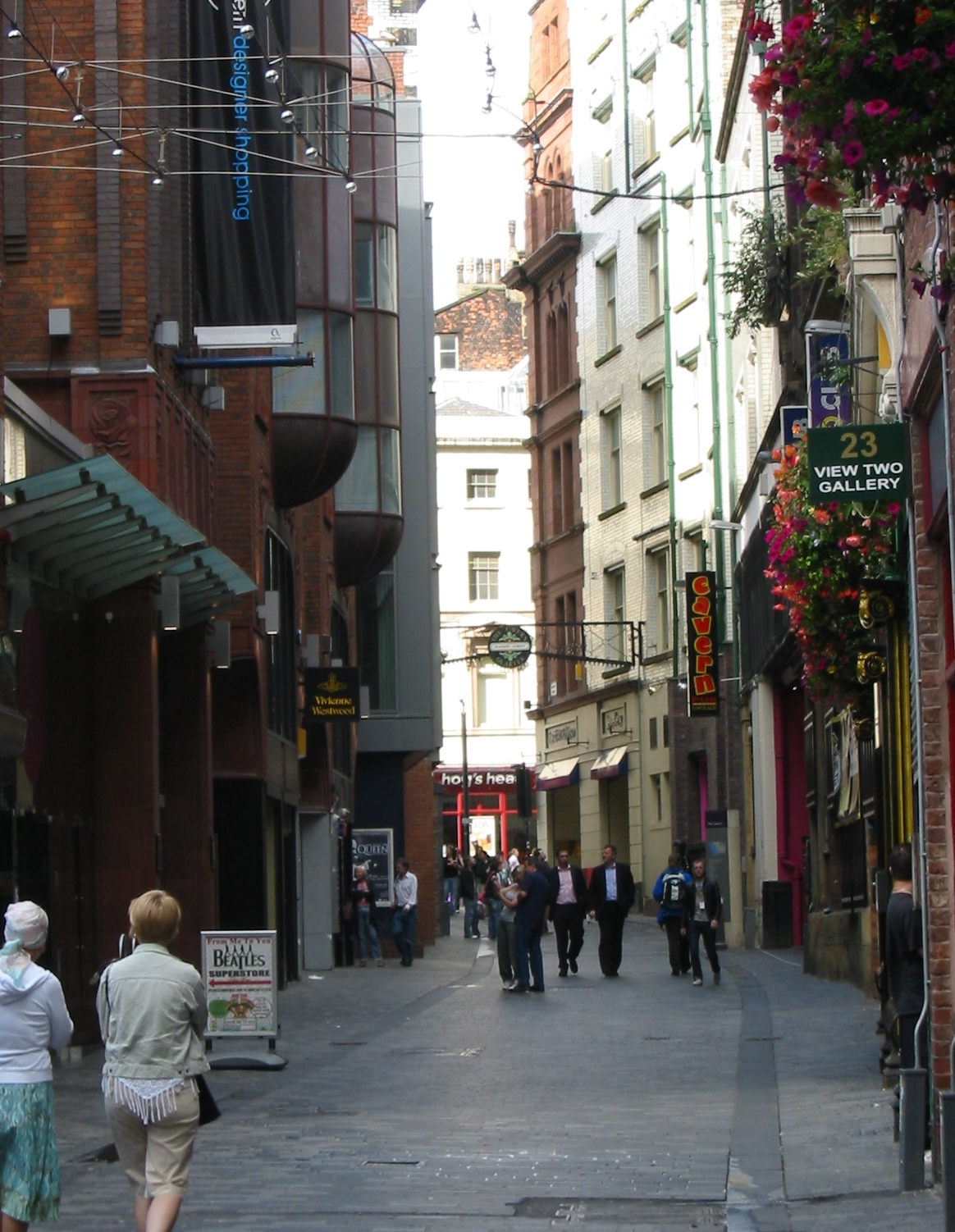 Nrf: Liverpool